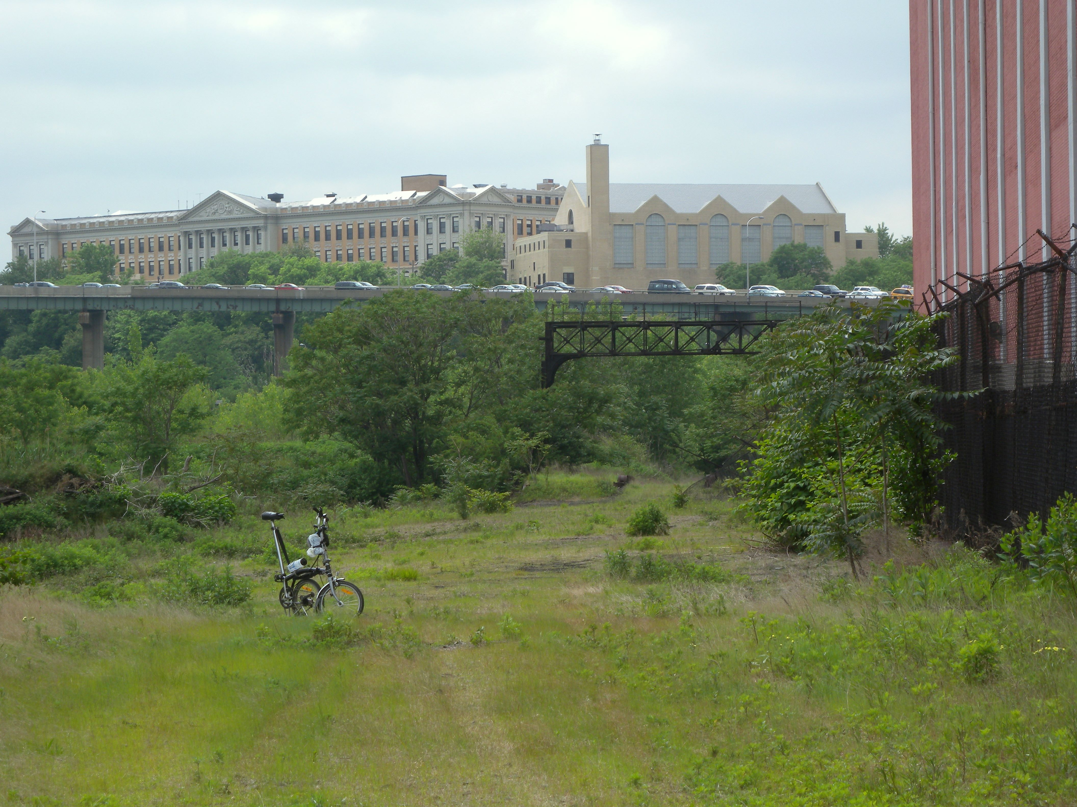 Looking west along main line. I-78 ramp to Holland Tunnel, and Dickinson High School, are in background.